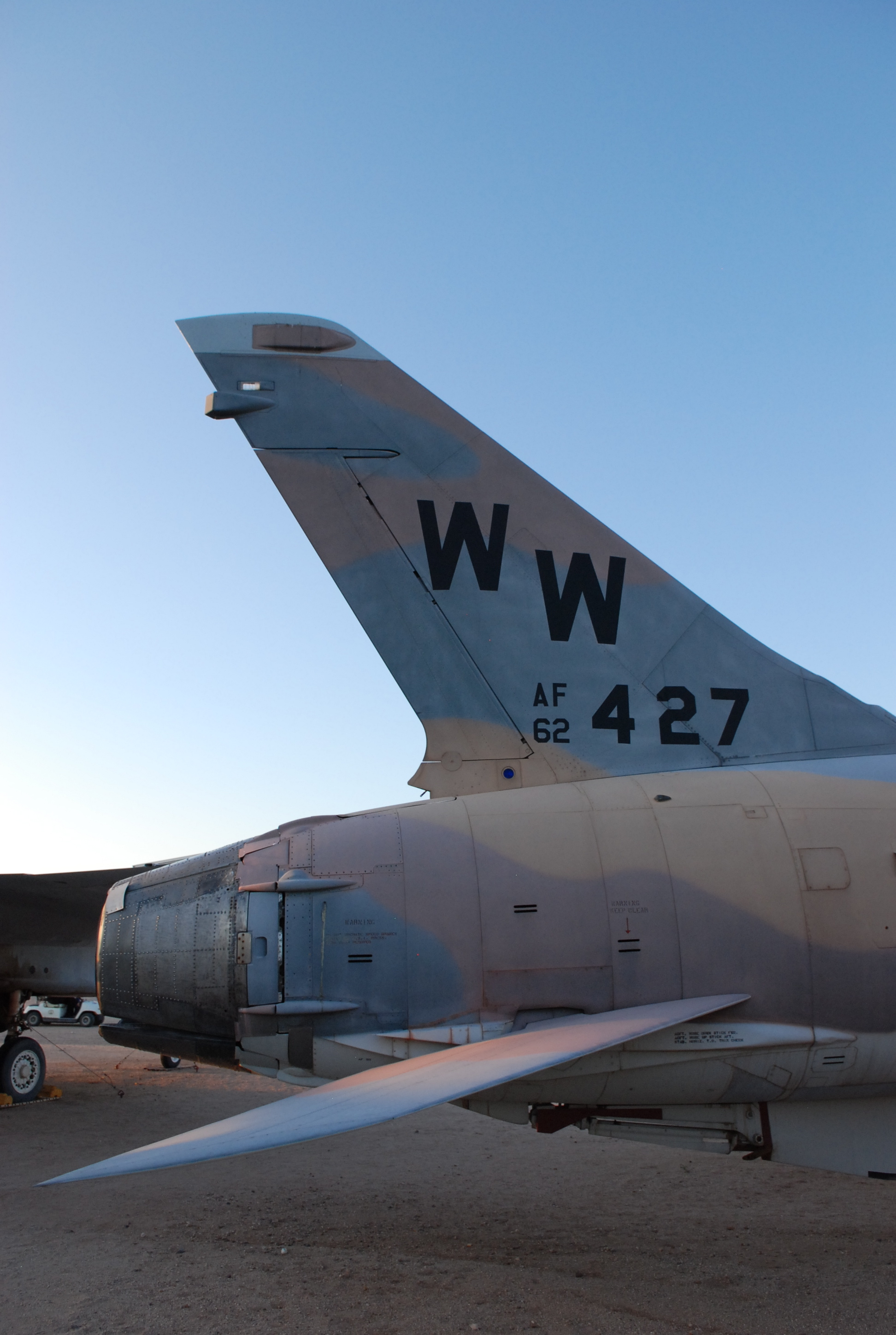 Pima Air & Space Museum - Tucson, AZ